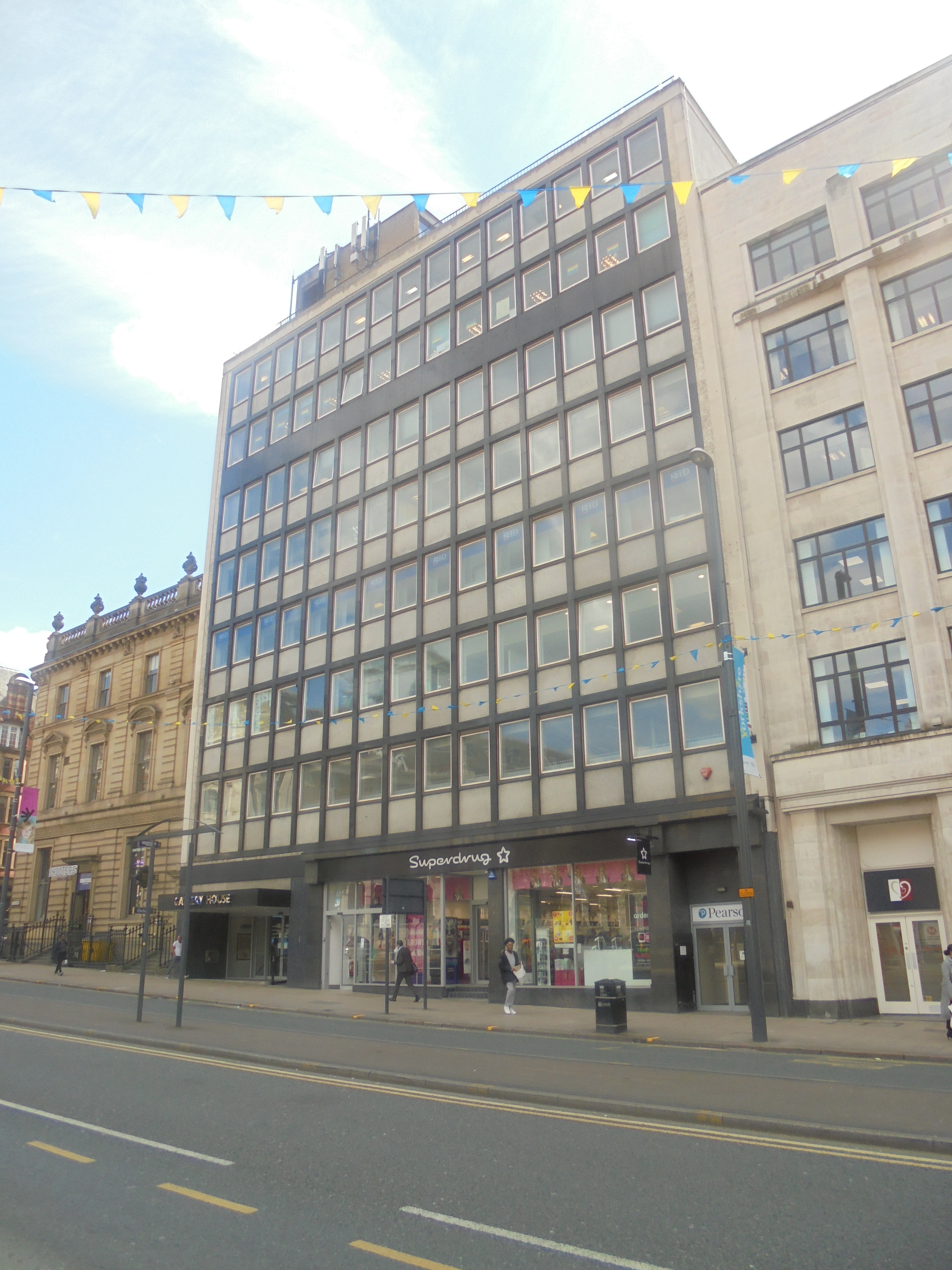 Former Eagle Star Insurance building, the Headrow, Leeds, West Yorkshire. Taken on the afternoon of Tuesday the 1st of May 2018.